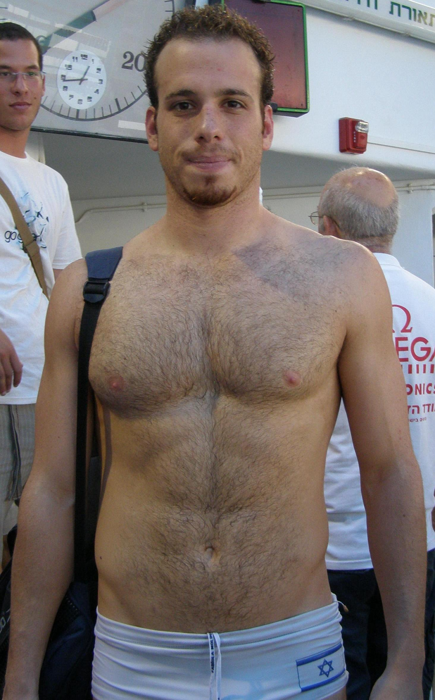 Itai Chammah at the Maccabiah games 07/2009